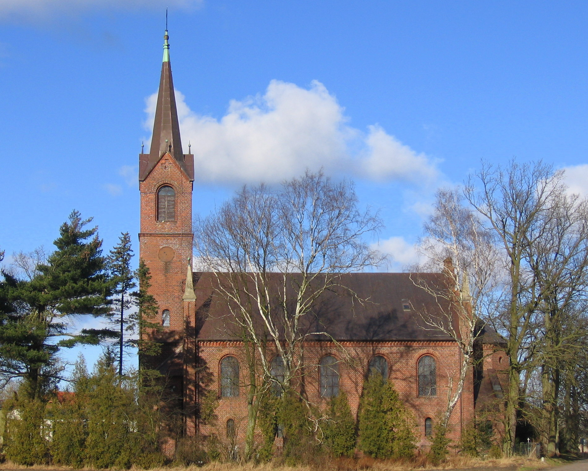 Christ the King Church in Korzystno, Poland